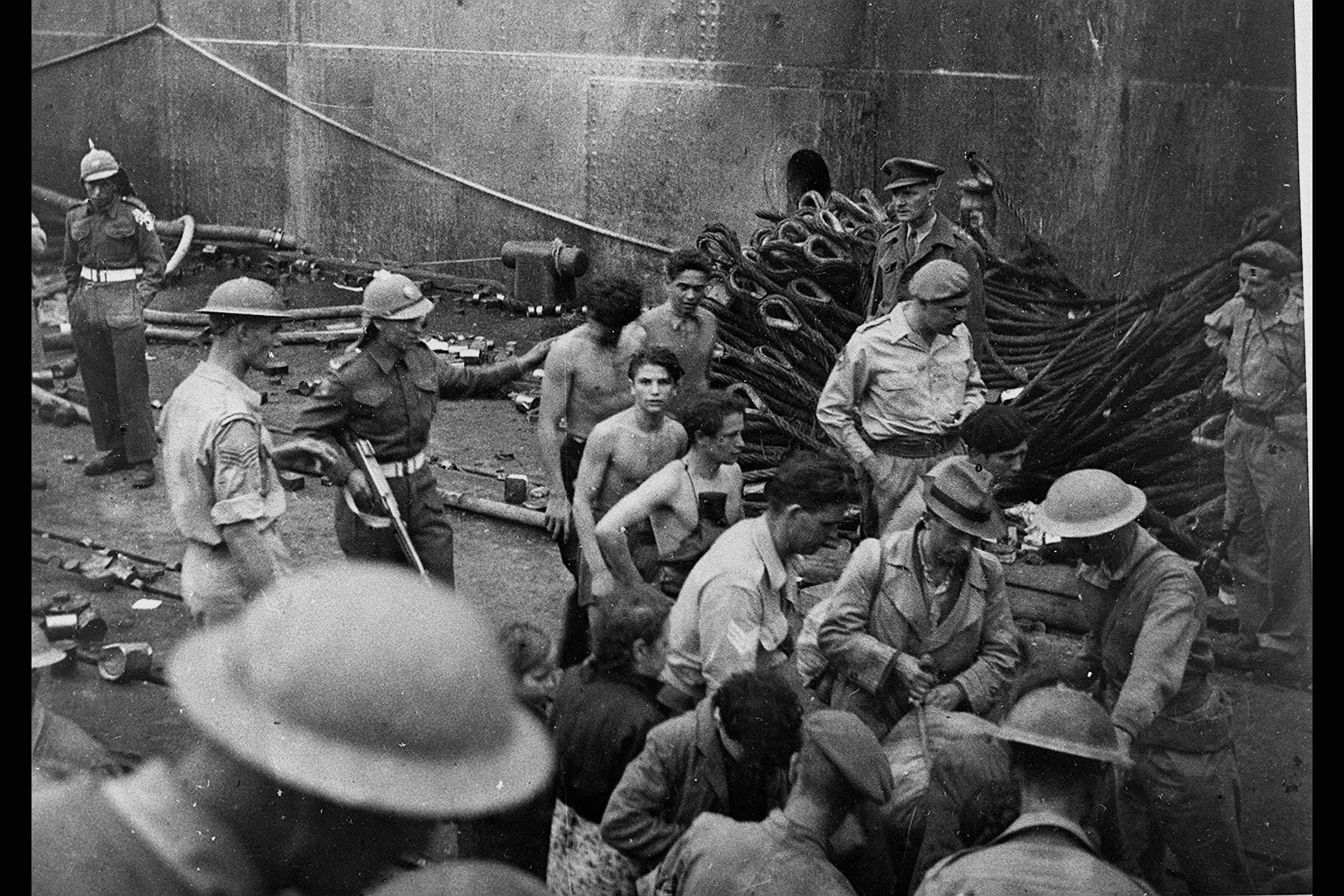 ILLEGAL IMMIGRANTS ABOARD THE "KNESSET ISRAEL" SHIP, BEING SEARCHED BY BRITISH SOLDIERS AND MEMBERS OF THE ARAB LEGION BEFORE THEIR TRANFER TO CAMPS IN CYPRUS. חיילים בריטיים וחברי הלגיון הערבי, מבצעים חיפוש באוניית המעפילים "כנסת ישראל" טרם גירושה לקפריסין.